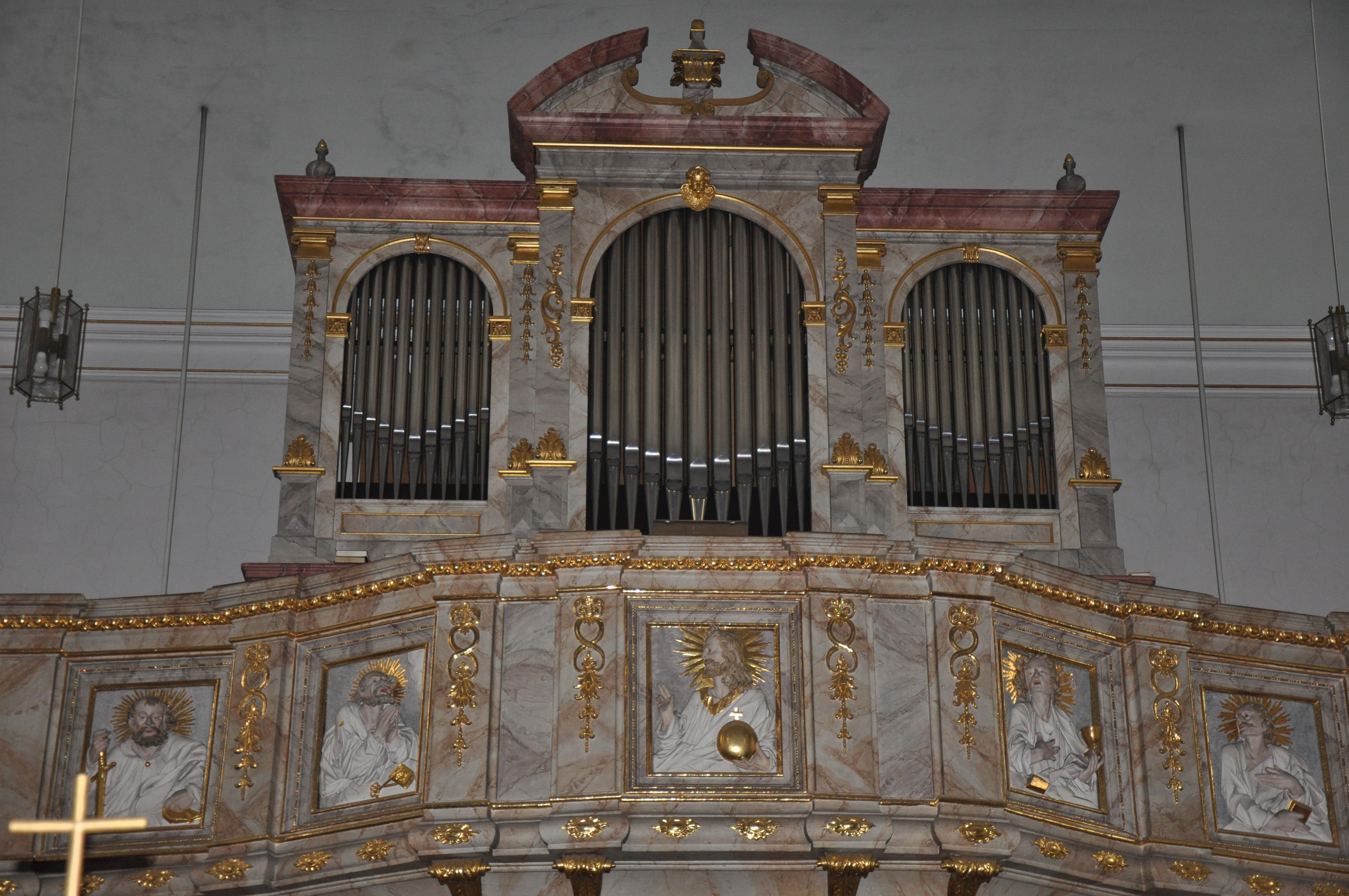 Laurentiuskirche (Dirmstein) Dirmstein